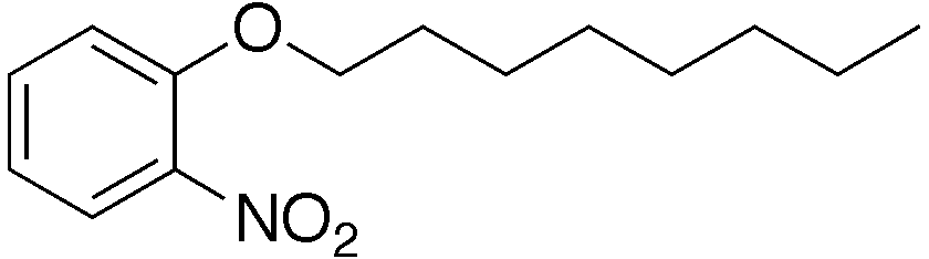 chemical structure of Nitrophenoxyoctane